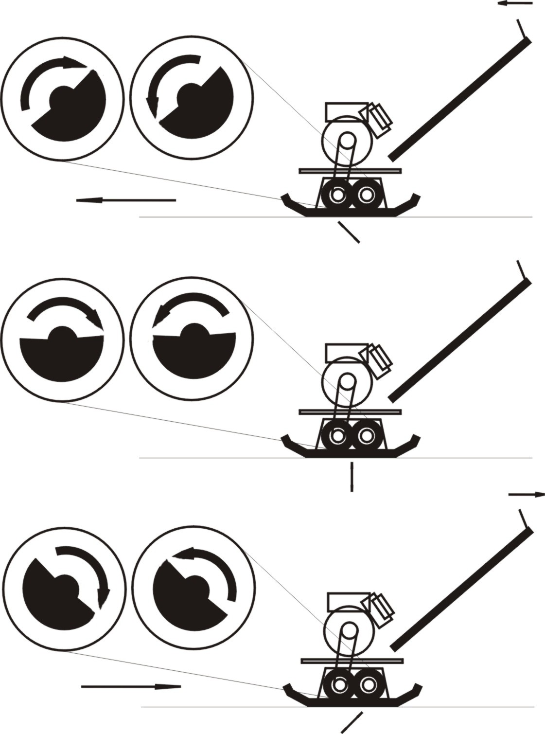 Scheme of reversible vibratory plate